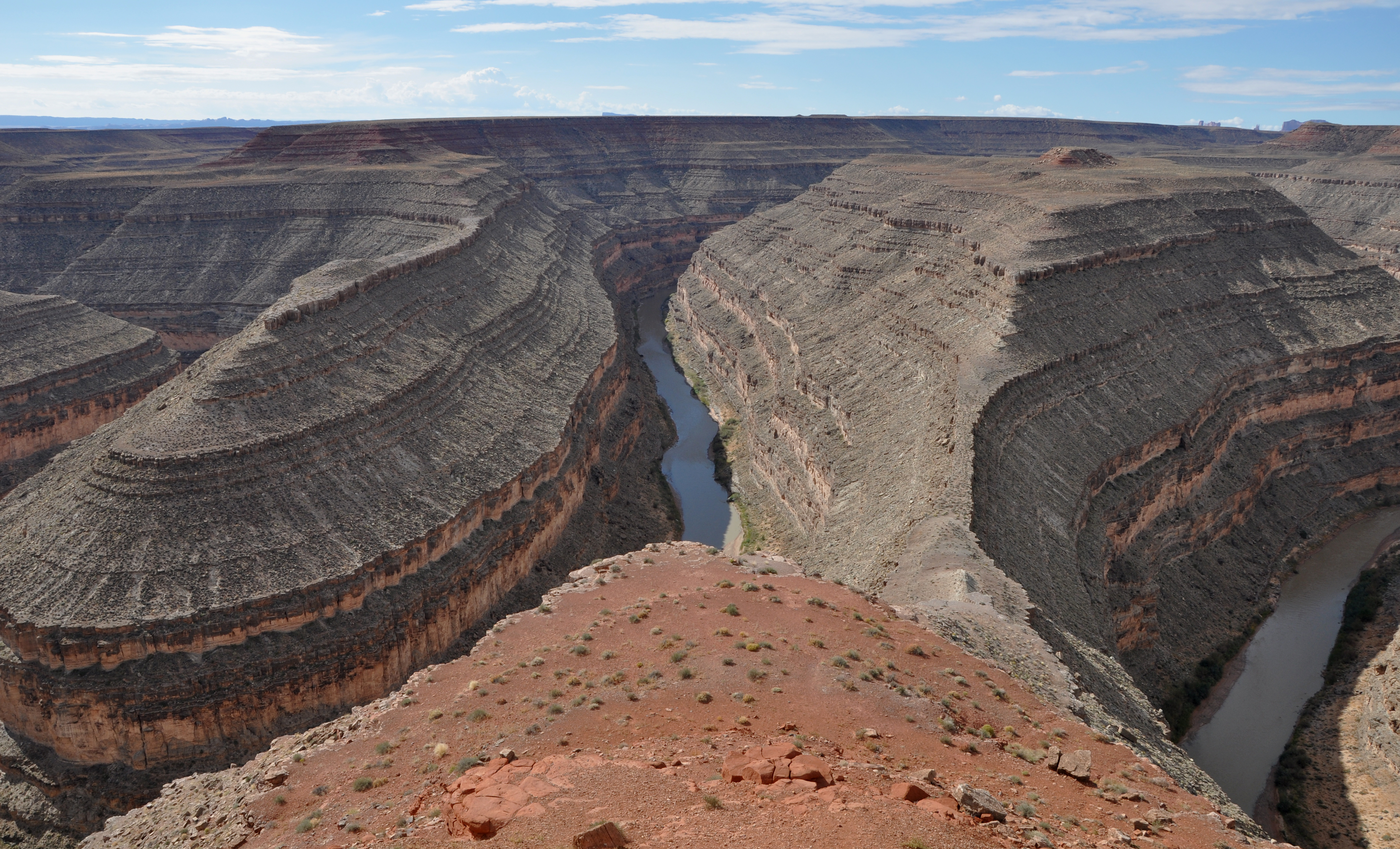 Entrenched meanders of the San Juan River (Utah)-(of New Mex, Colo, Utah) in the U.S. state of Utah. View is from Goosenecks State Park, north of Mexican Hat-(AZ). (Geology)-The Honaker Trail Formation-(slopes), lie upon the inner canyon (cliffs & slopes), of the Paradox Formation.